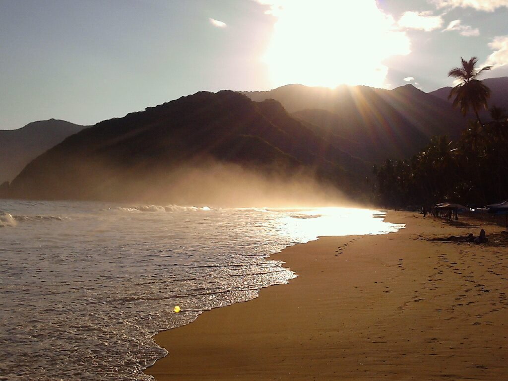 Sunset in Chronoí bay, Venezuela.